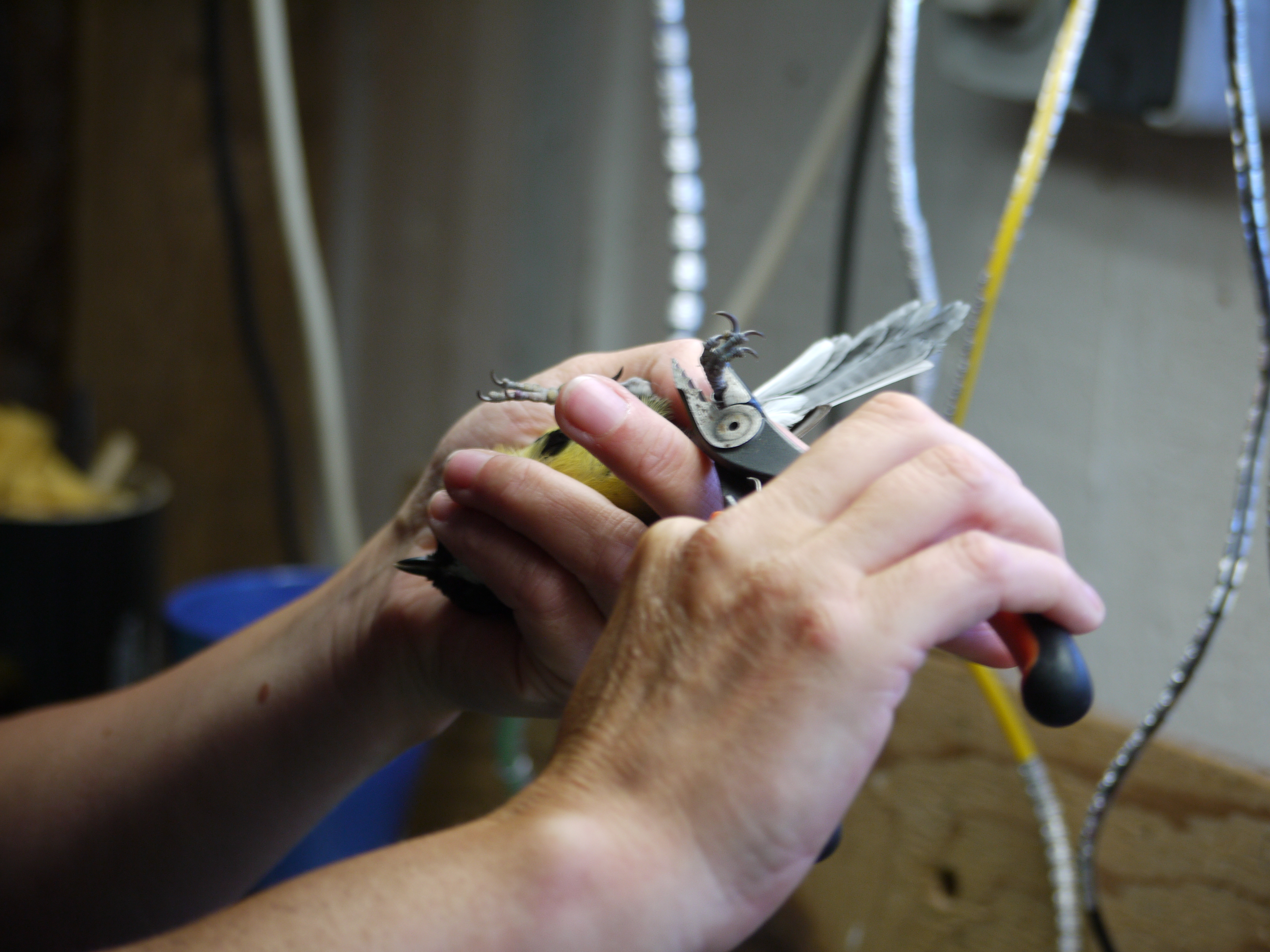 A great tit (Parus major) is being ringed at the Landsorts Fågelstation on the island of Öja in Sweden.